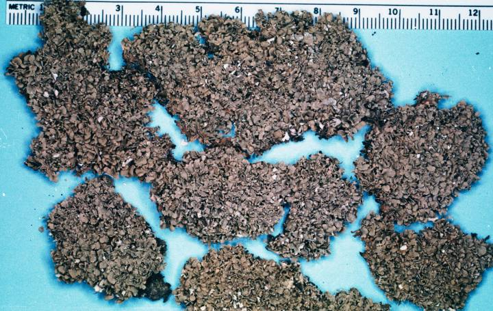 Cladonia apodocarpa Robbins, 1925 (photograph of a herbarium specimen) Growing on acid rock outcrops in deciduous forest above Gunpowder Falls at Fall Road, Baltimore County, Maryland, USA; collected and identified by A. Norden and B. Norden (No. L-3, 12 Aug 1974); specimen is now in the Lichen Herbarium of the New York Botanical Garden. (millimeter scale)